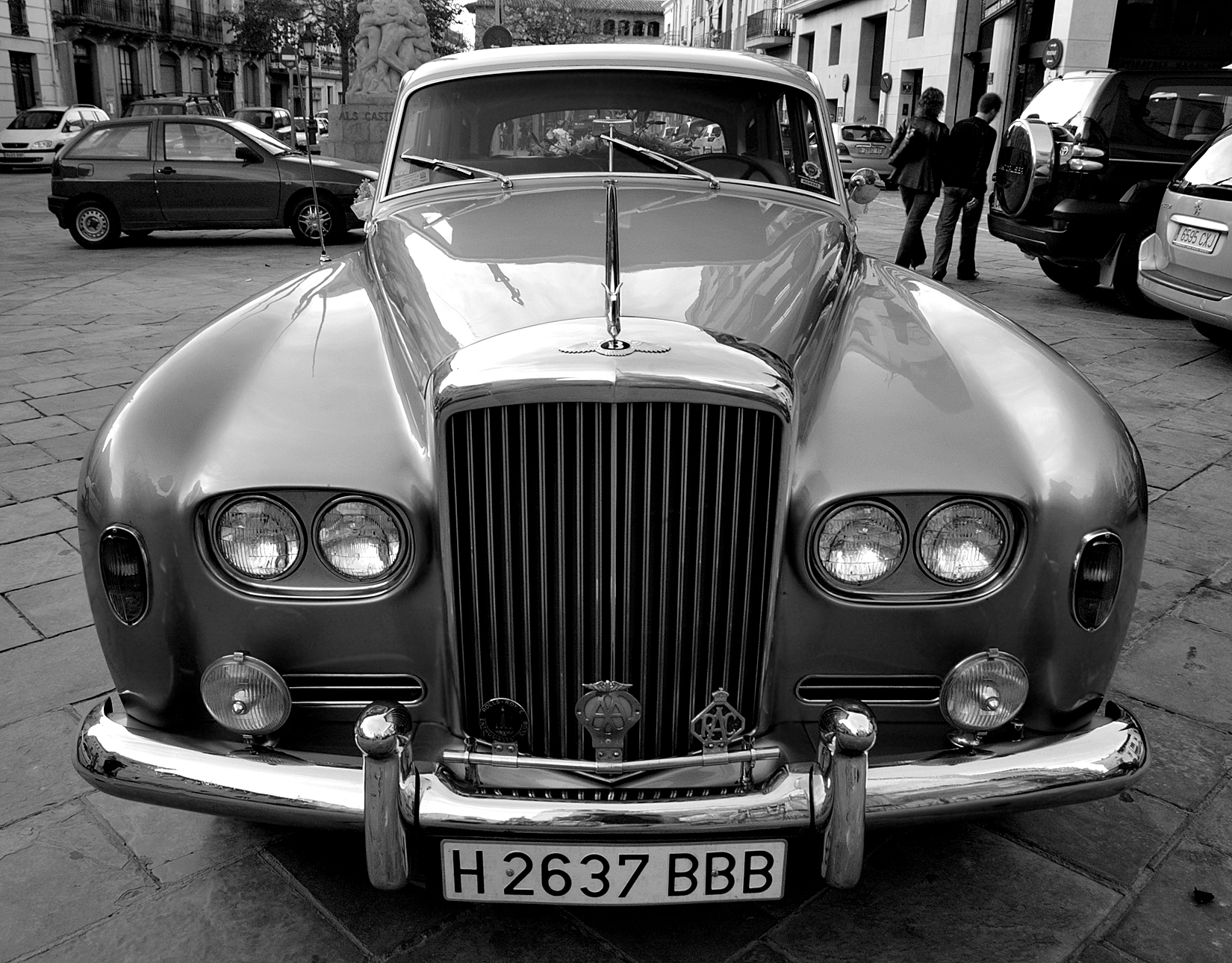 Rare left-hand drive version of a 1963 Bentley S3 Continental, Spain 2006